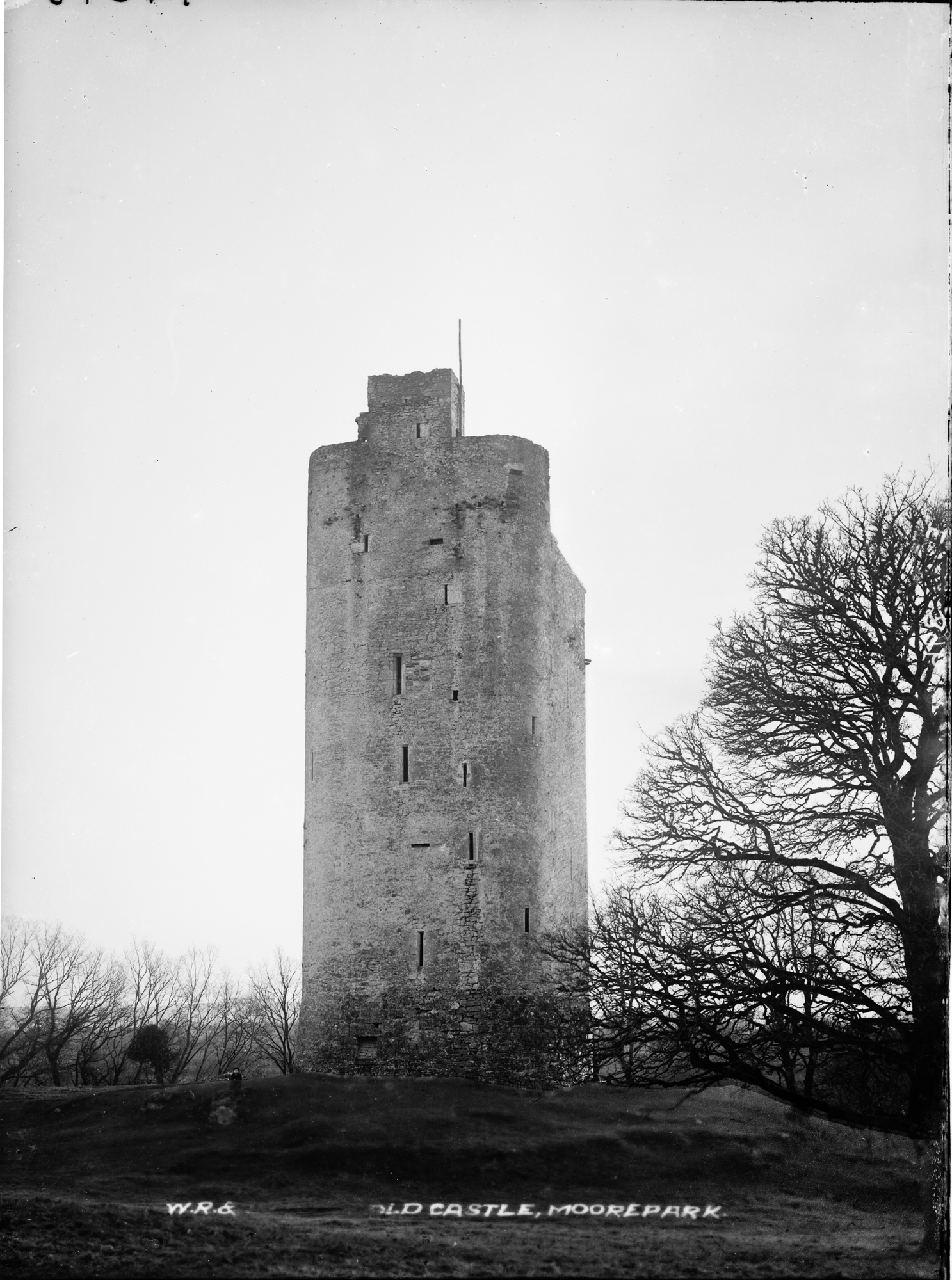 Back to North Cork today to near Fermoy. These fortified households are dotted all around the island and calling them castles appears to be a bit of an over-inflation. This one looks very big in comparison with others I know, I wonder what makes this one so interesting? And, we learned, what makes this one interesting is its bloody past. The original builders of this tower house were the Norman De Caunton family. Later known as the Condons, they sided with the Earl of Desmond in the 1580s during the Desmond Rebellion. On the losing side, they were forced to surrender their estates in 1588. They regained the castle for a period - only to see it taken over by the Fleetwood family in 1622. During the particularly bloody Eleven Years War (aka the Confederate Wars in Ireland), the Condons retook the castle again - decimating the surrendering Fleetwoods. The Condon return was short lived however as, in 1643, English forces retook the castle and its Condon occupants were "put to the sword". Many of *these* English soliders however were killed in the subsequent Battle of Cloghleagh. The castle may have been in the possession of the War Department when this image was captured.... Photographer: Unknown Collection: Eason Photographic Collection Date: Catalogue range c.1900-1939 NLI Ref: EAS_0896 You can also view this image, and many thousands of others, on the NLI’s catalogue at